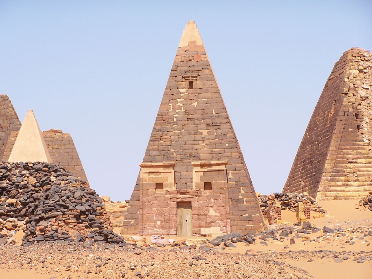 Pyramids of Meroe in Sudan. In the middle pyramid N19, right N11, left front pyramid N30, behind N32, then N18 and at the end N9